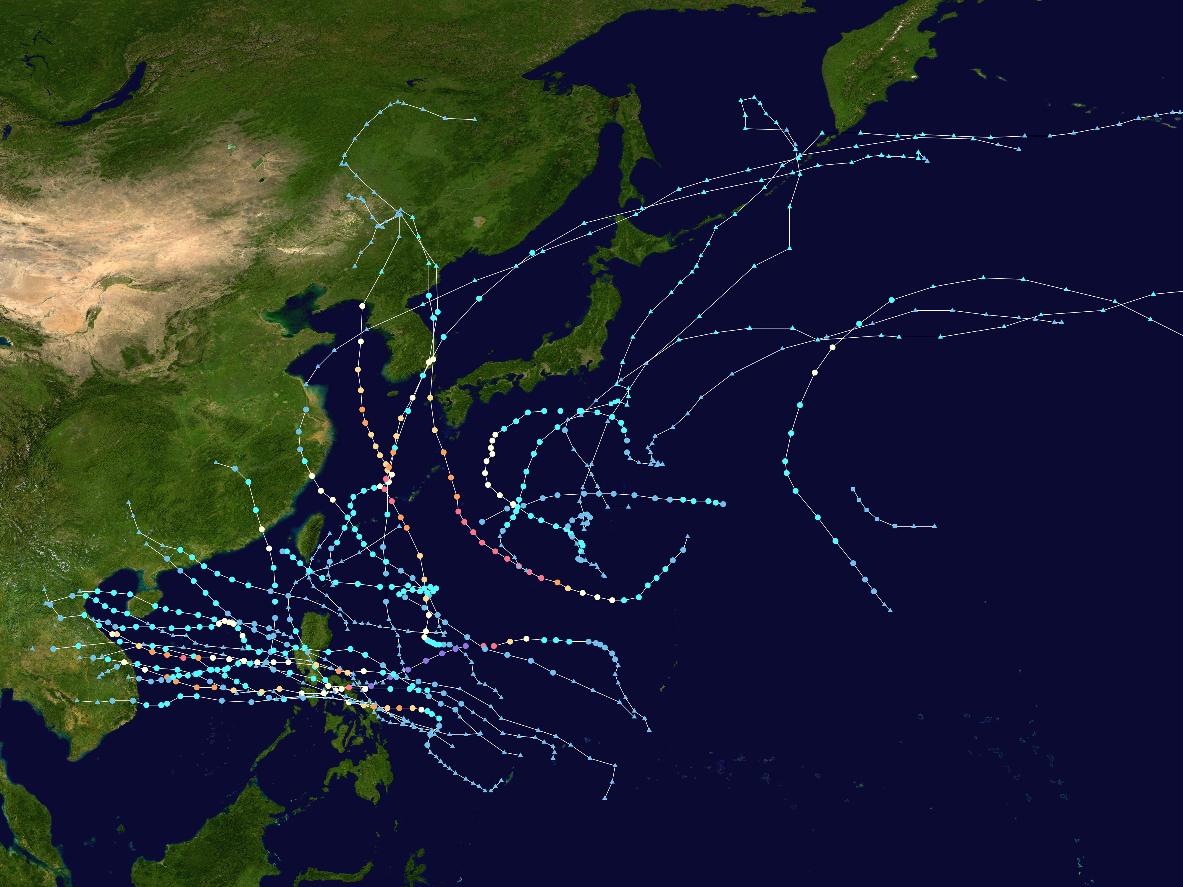 This map shows the tracks of all tropical cyclones in the 2020 Pacific typhoon season. The points show the location of each storm at 6-hour intervals. The colour represents the storm's maximum sustained wind speeds as classified in the Saffir-Simpson Hurricane Scale (see below), and the shape of the data points represent the type of the storm. Map generation parameters: --res 4000 --extra 1 --dots 0.2 --lines 0.04 --xmin 100 --xmax 180 --ymin 0 --ymax 60 Saffir–Simpson scale Tropical depression≤38 mph≤62 km/h Category 3111–129 mph178–208 km/h Tropical storm39–73 mph63–118 km/h Category 4130–156 mph209–251 km/h Category 174–95 mph119–153 km/h Category 5≥157 mph≥252 km/h Category 296–110 mph154–177 km/h Unknown Storm type Tropical cyclone Subtropical cyclone Extratropical cyclone / Remnant low / Tropical disturbance / Monsoon depression